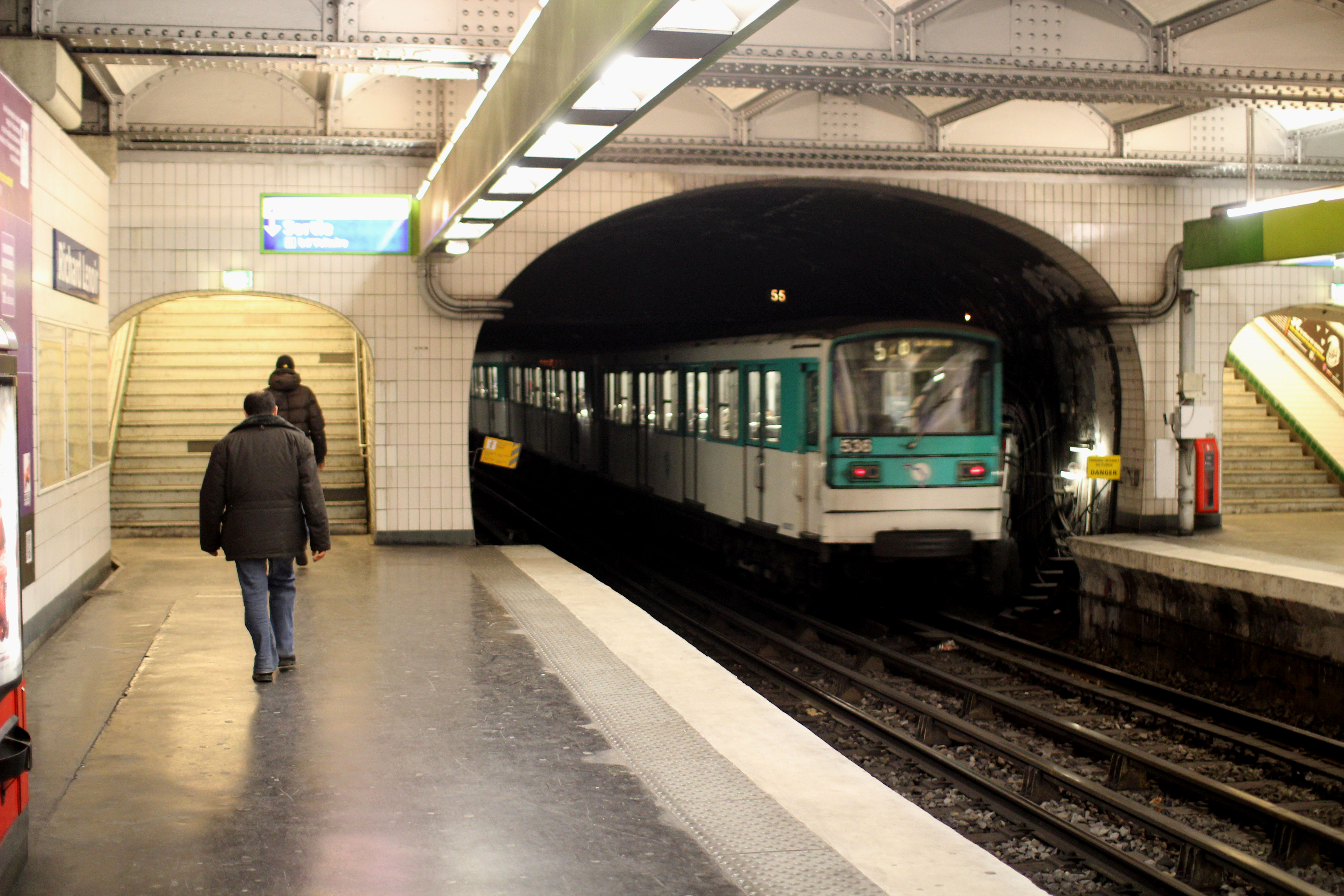 Metro station Richard Lenoir on Parisian metroline 5